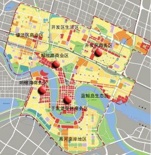 the document from Government of Tianjin City，P.R.China